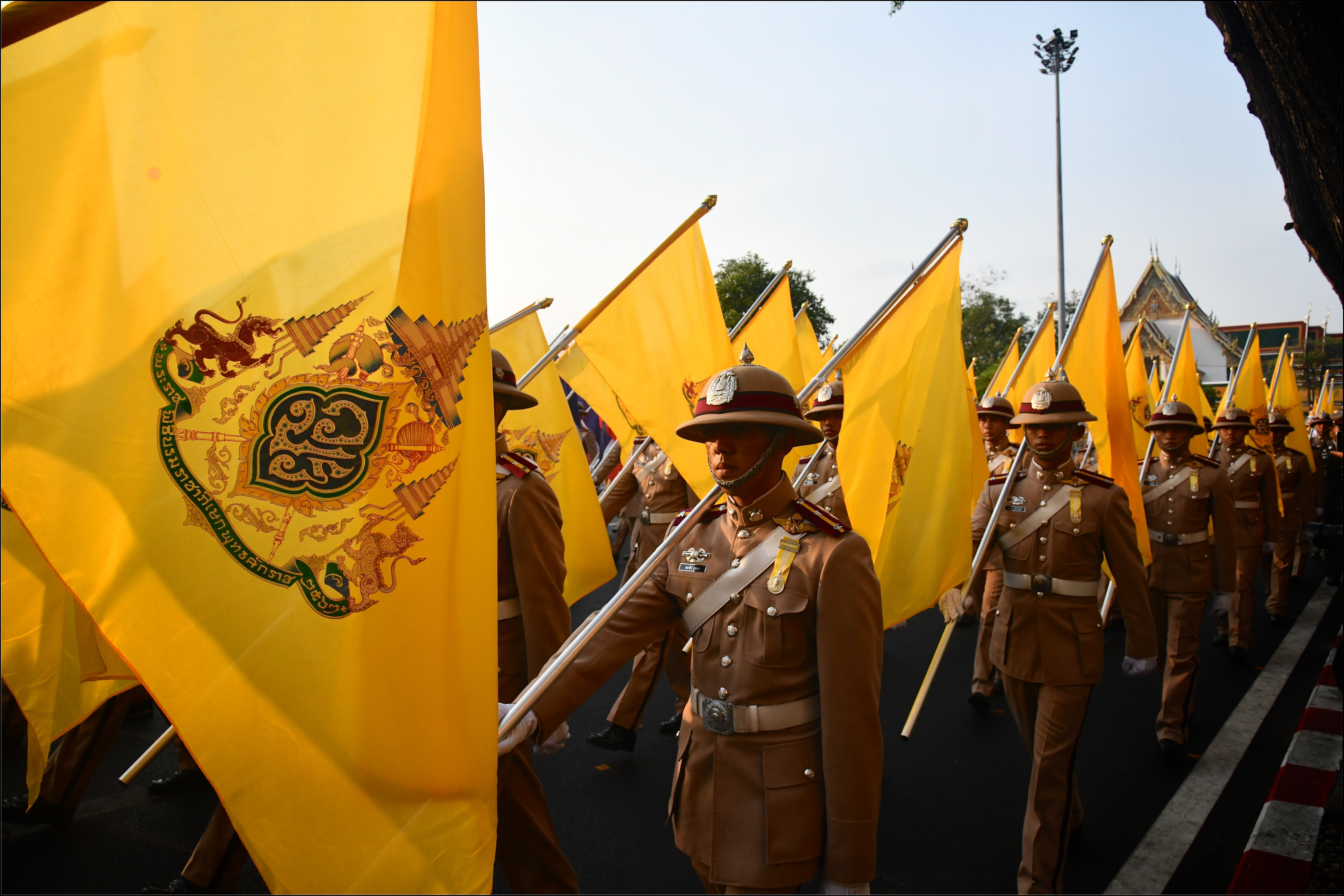 the Coronation of King Rama X B.E. 2562 (2019), of Thailand.